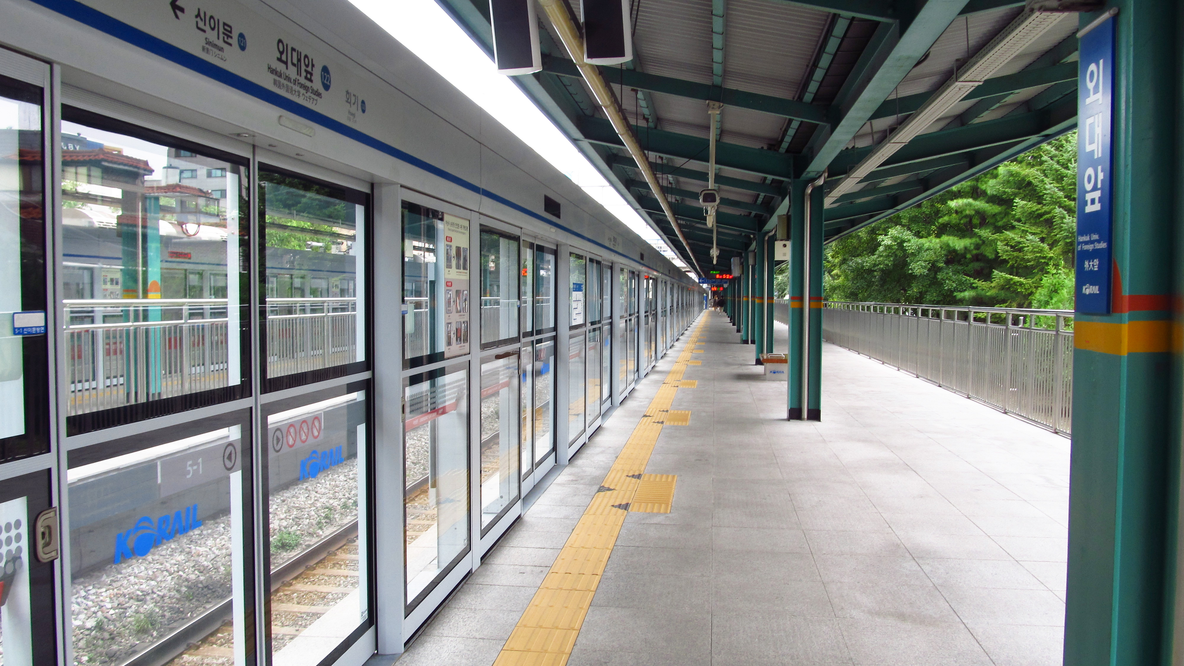 The Uijeongbu-bound platform at Hankuk University of Foreign Studies Station on Seoul Subway Line 1 in Dongdaemun-gu, Seoul, Republic of Korea(South Korea)